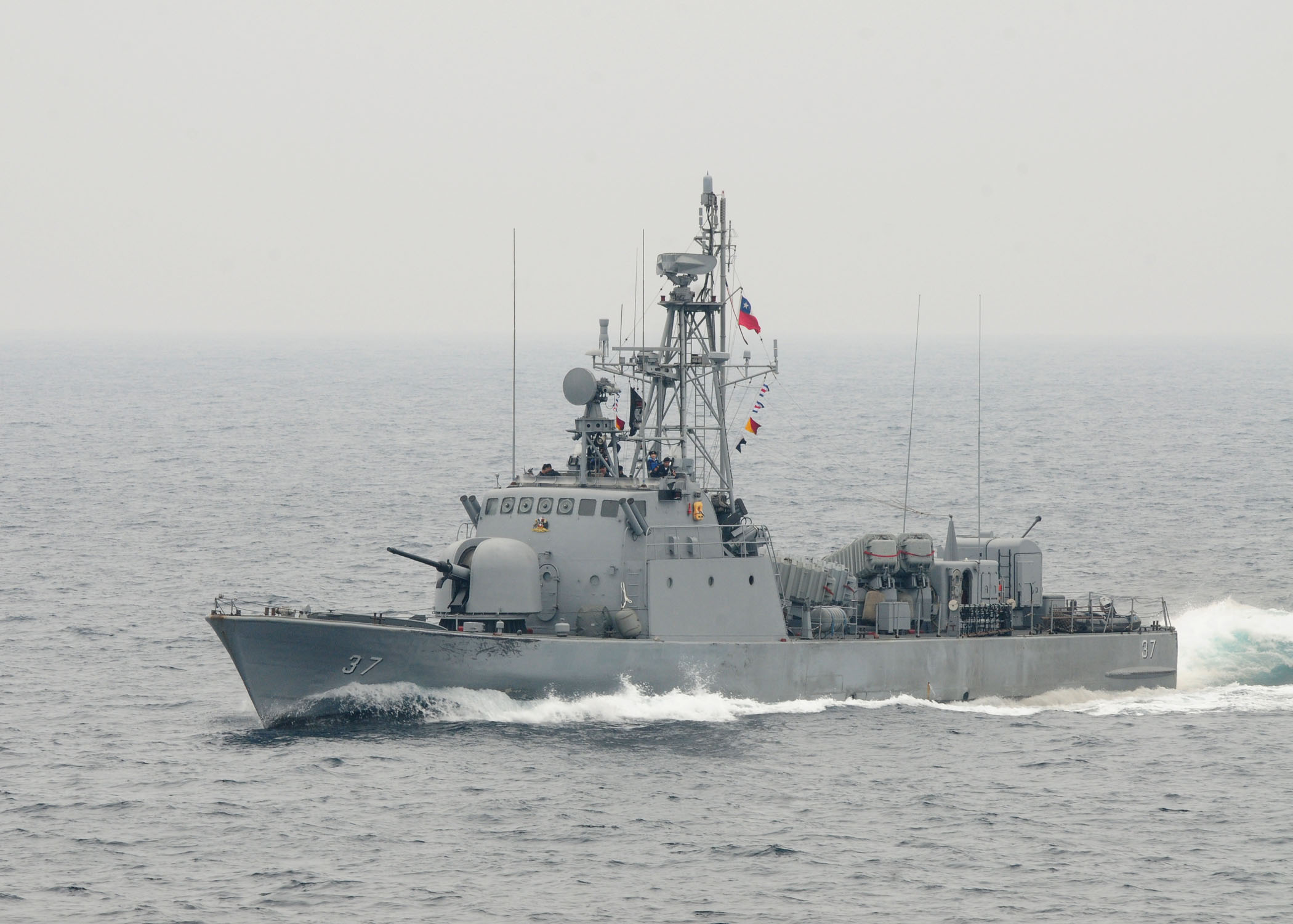 PACIFIC OCEAN (June 19, 2010) The Chilean navy fast attack craft Teniente Orella (LM 37) is underway off the coast of Iquique, Chile participating in Southern Seas 2010. Southern Seas is a U.S. Southern Command-directed operation that provides U.S. and international forces the opportunity to operate in a multi-national environment. (U.S. Navy photo by Mass Communication Specialist 1st Class Darryl Wood/Released)